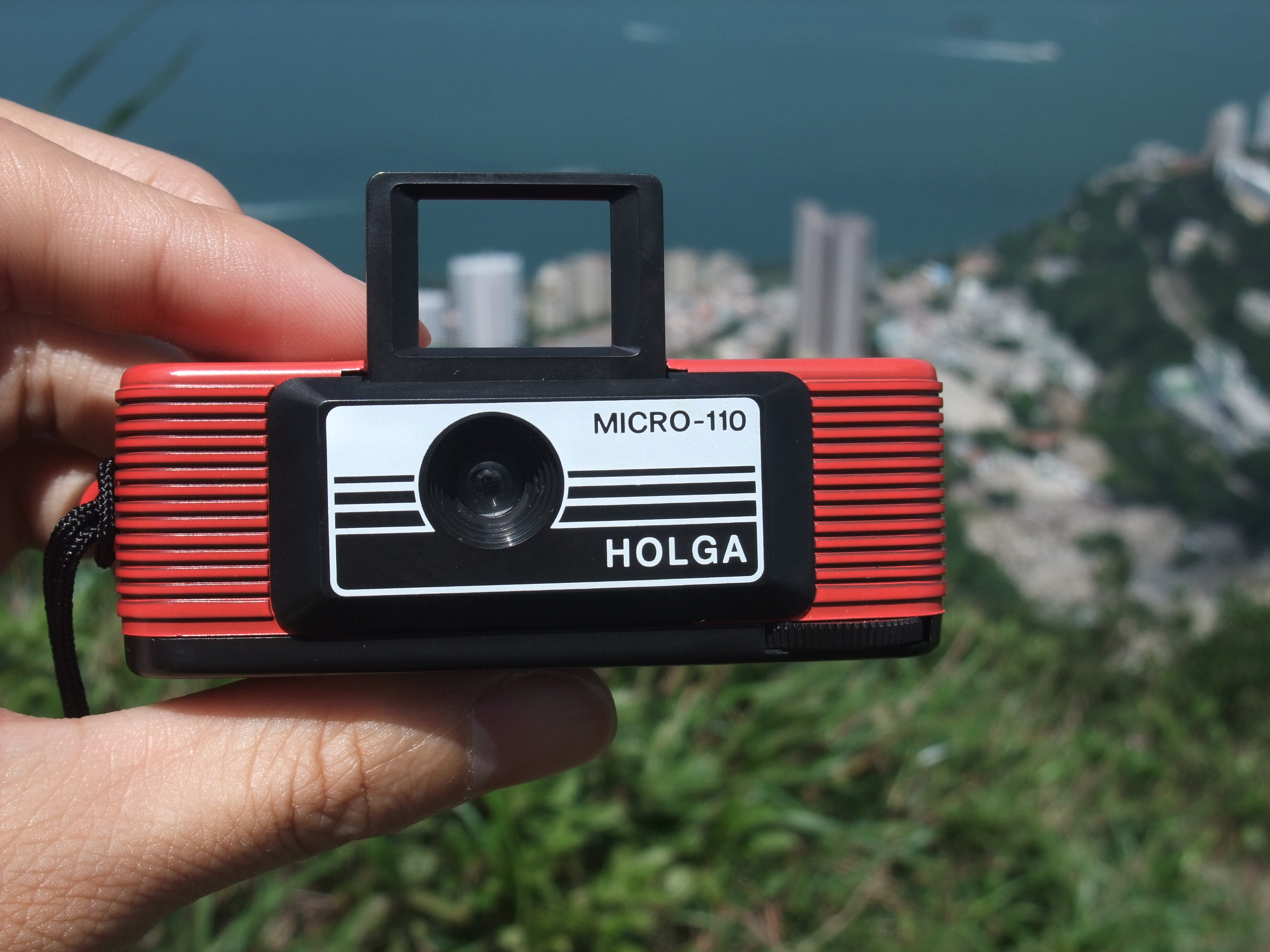 Photo of Holga Micro-110